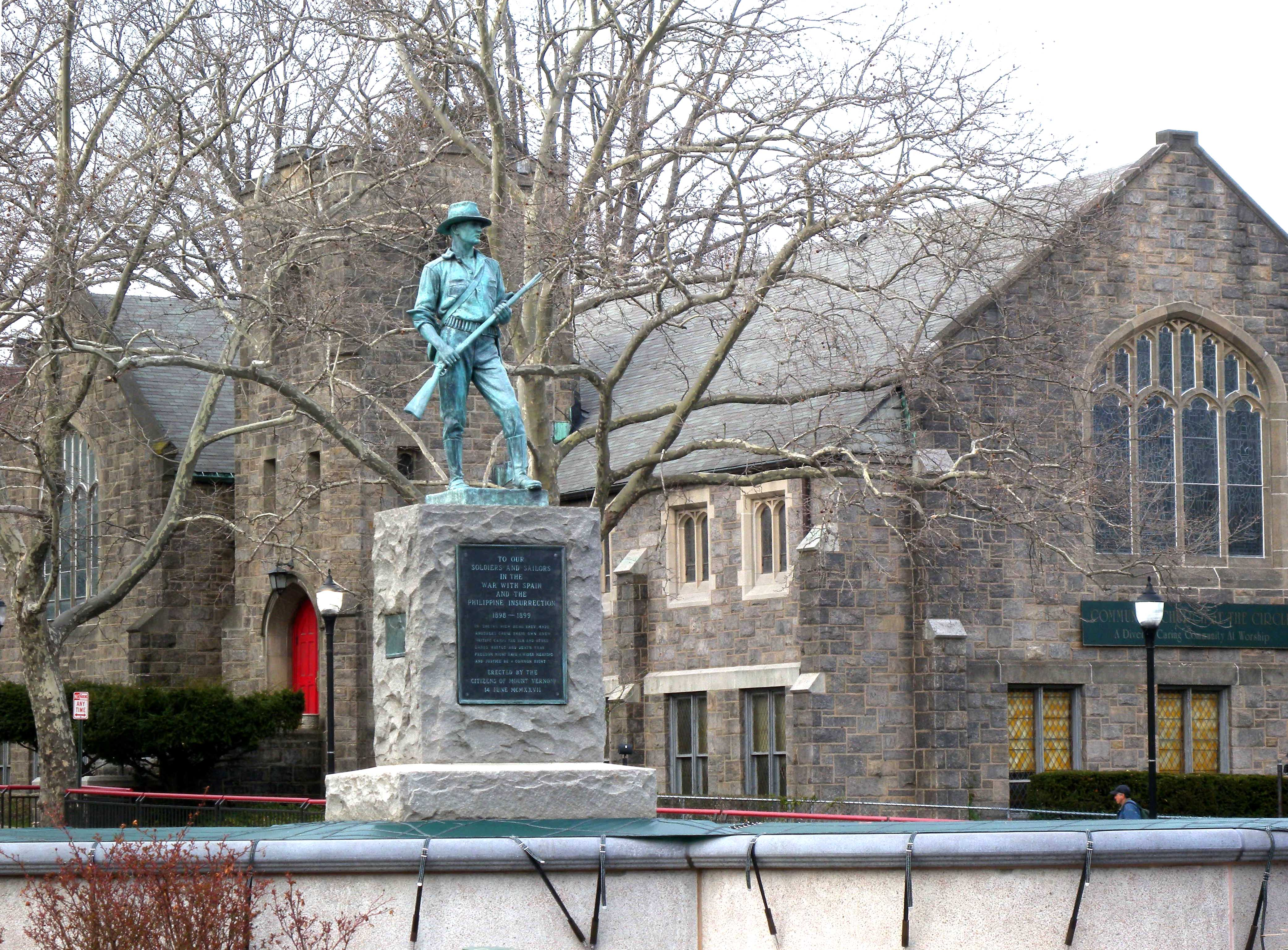 Looking northeast at statue and Community Church of the Circle in Mt Vernon on a cloudy afternoon